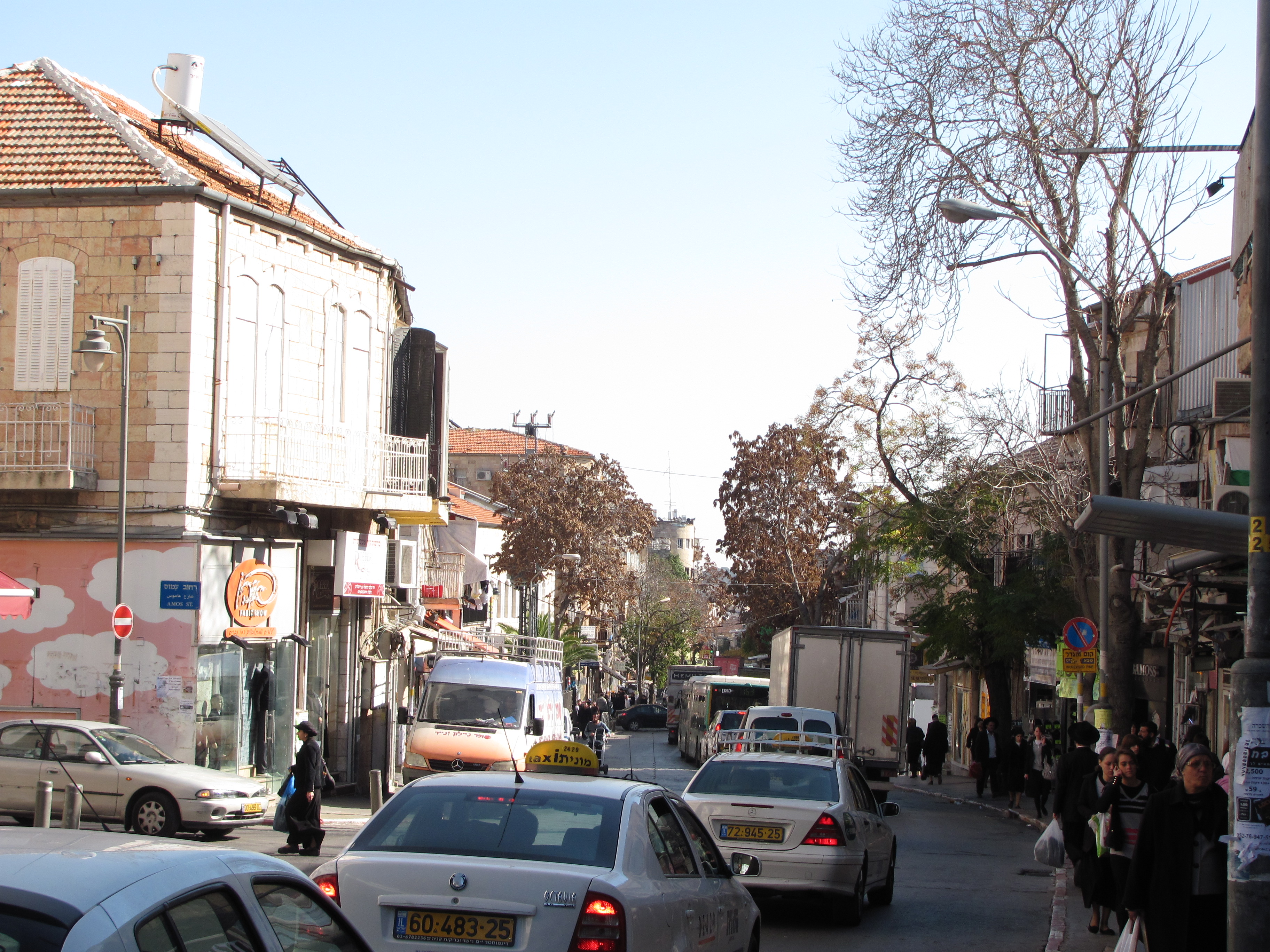 View of street and sidewalk traffic on Malkhei Yisrael Street, Jerusalem (corner of Amos street).